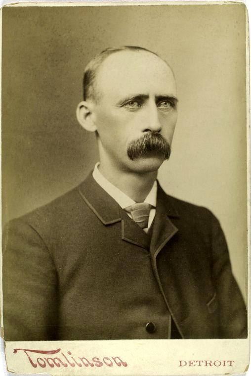 Deacon White, Detroit Wolverines, 3rd base, 1888. Albumen print, 16.5 x 10.8 cm.